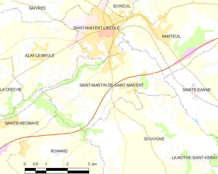 Map of French municipality Saint-Martin-de-Saint-Maixent